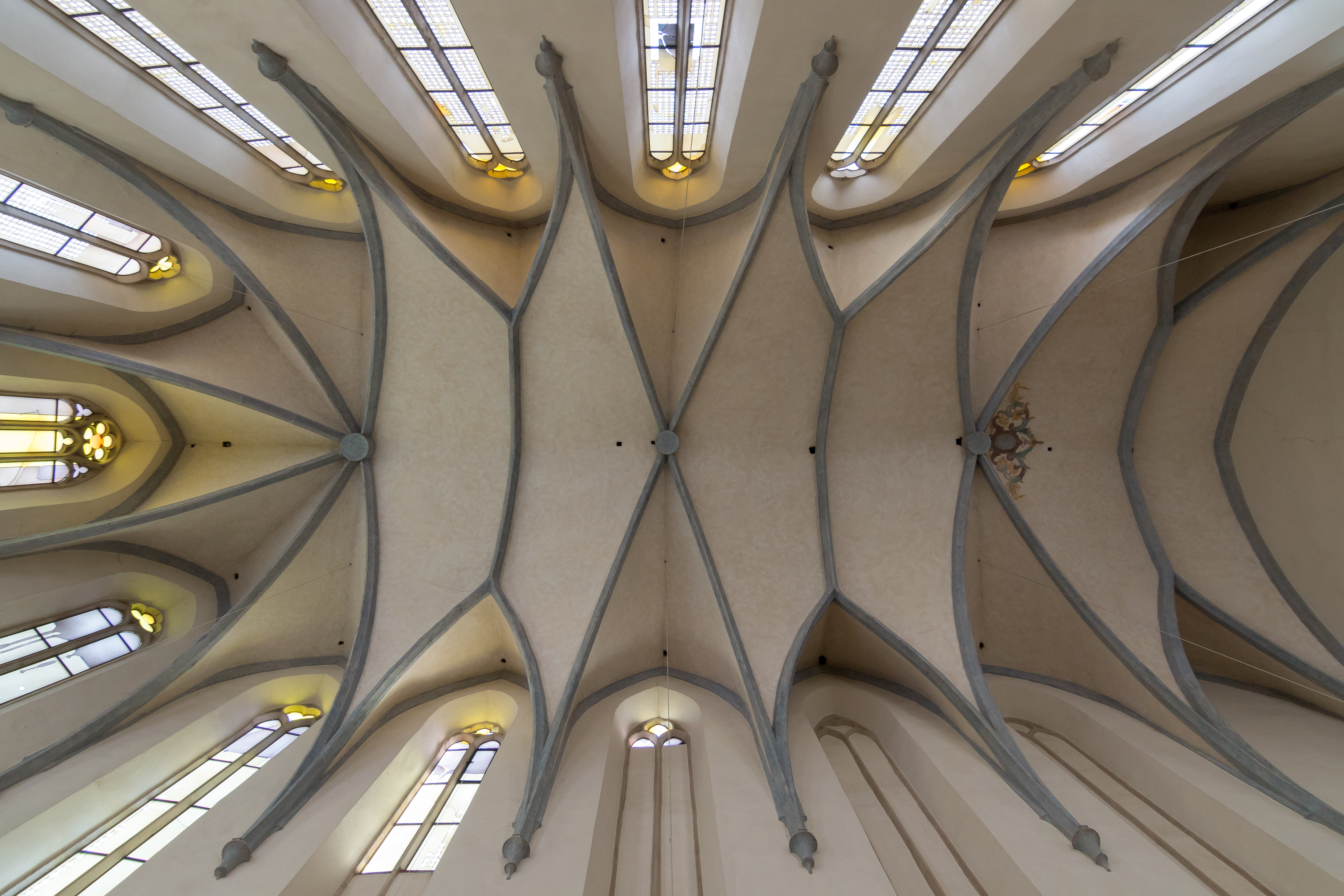 The Franziskanerkloster in Rothenburg ob der Tauber